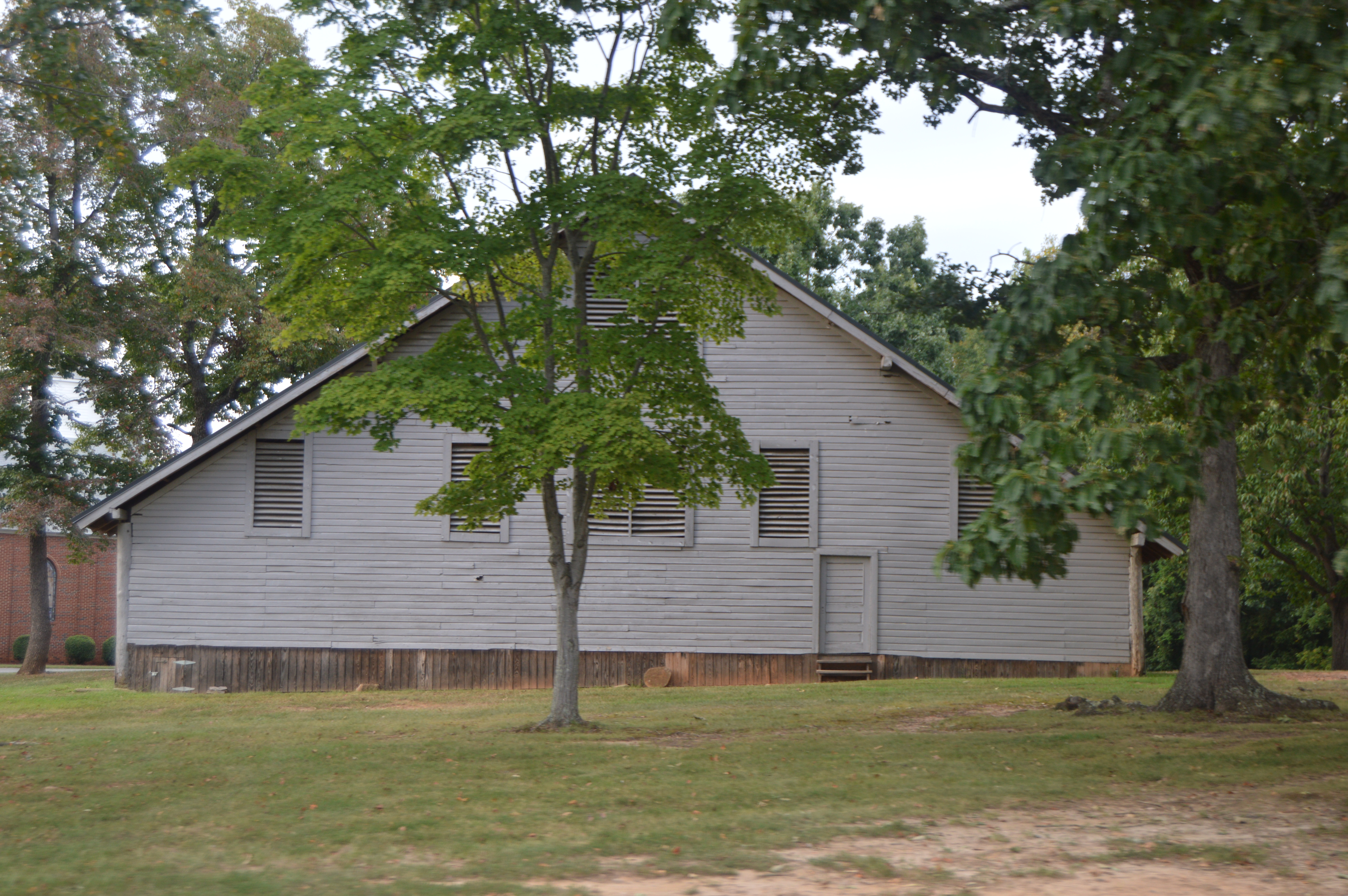 Rear of Center Arbor, located at the intersection of U.S. Route 64 and Godbey Road at Center in Davie County, North Carolina, United States. Built in 1876, it is listed on the National Register of Historic Places.